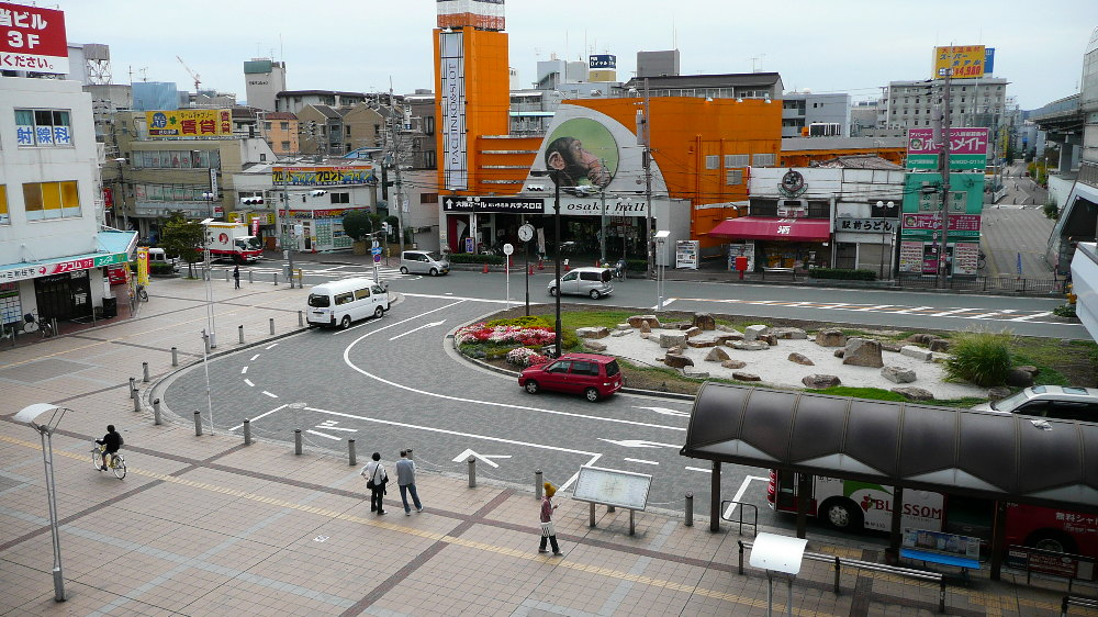 In front of Kadoma-shi Station, south exit